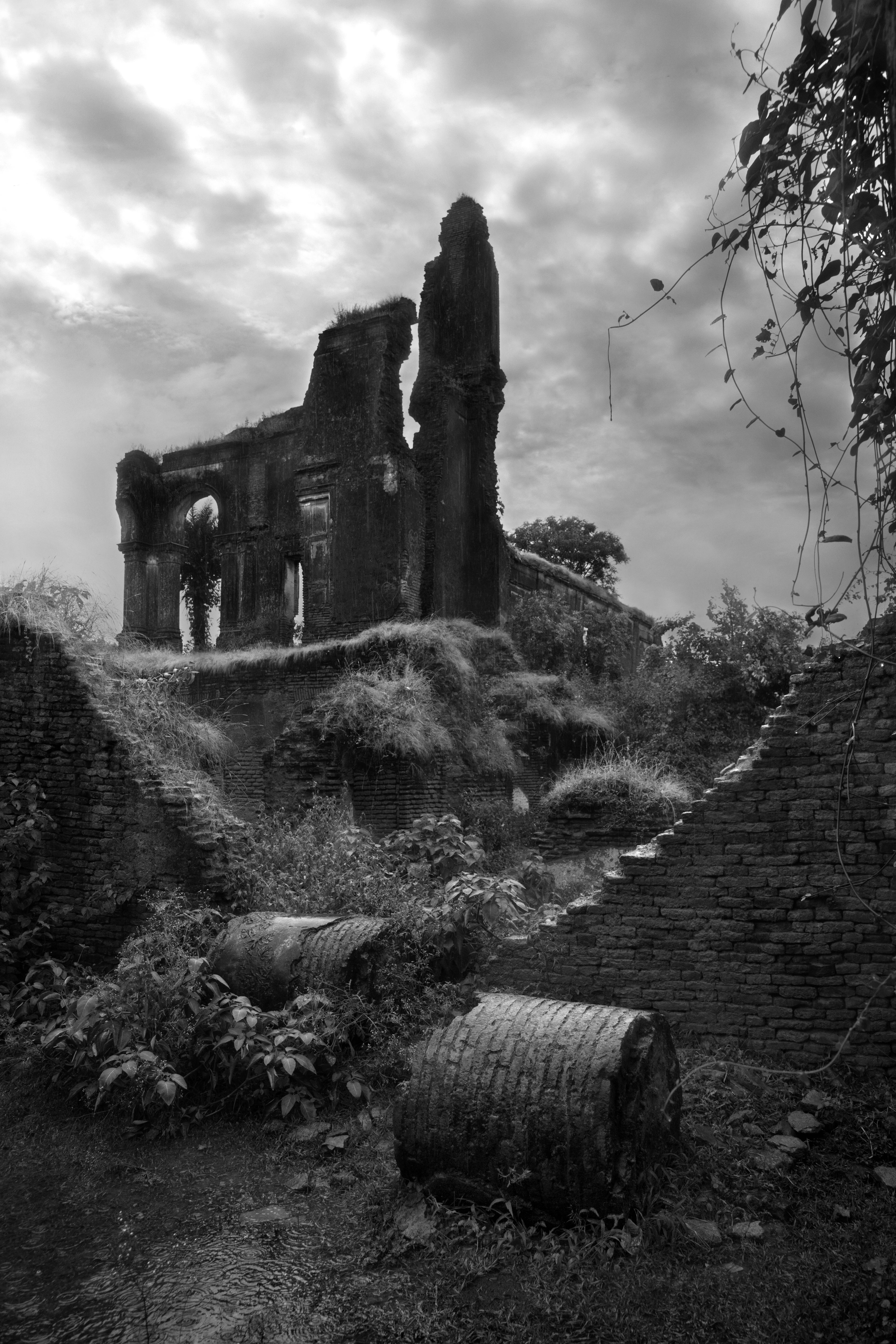 Musa Bagh is a famous and beautiful monument located in the city of Lucknow, Uttar Pradesh , India. In this picture the thing which attracted me was the serenity of this place.and the sky is also in a very good mood.so I captured this beautiful scene in my camera.